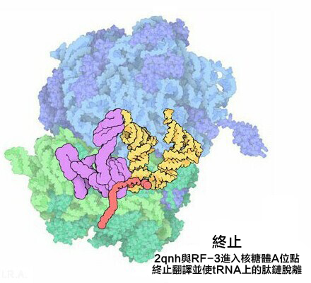 termination of translation